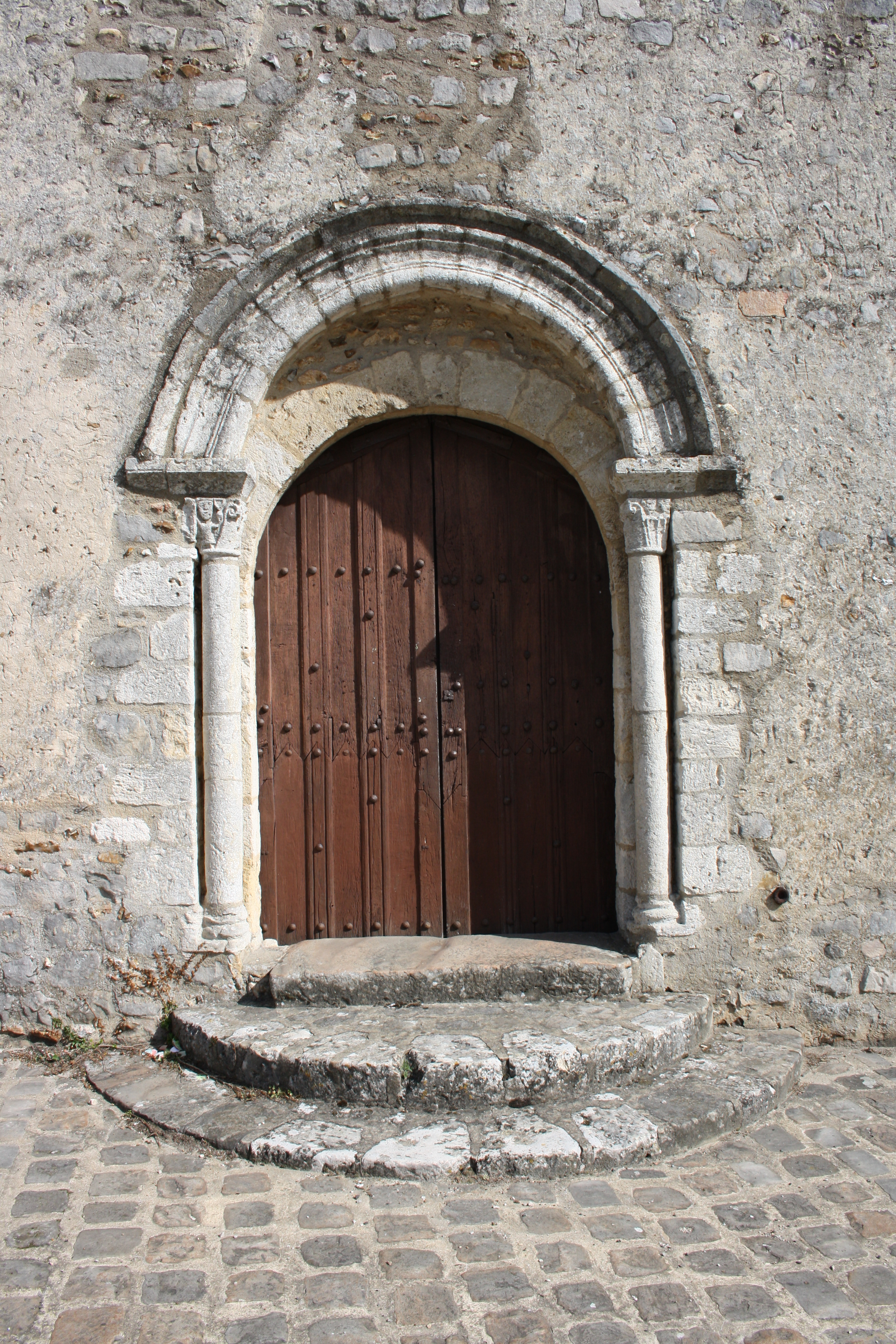 Saint-Pierre church in Longvilliers, France.